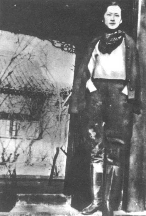 Lin Huiyin (1904-1955)